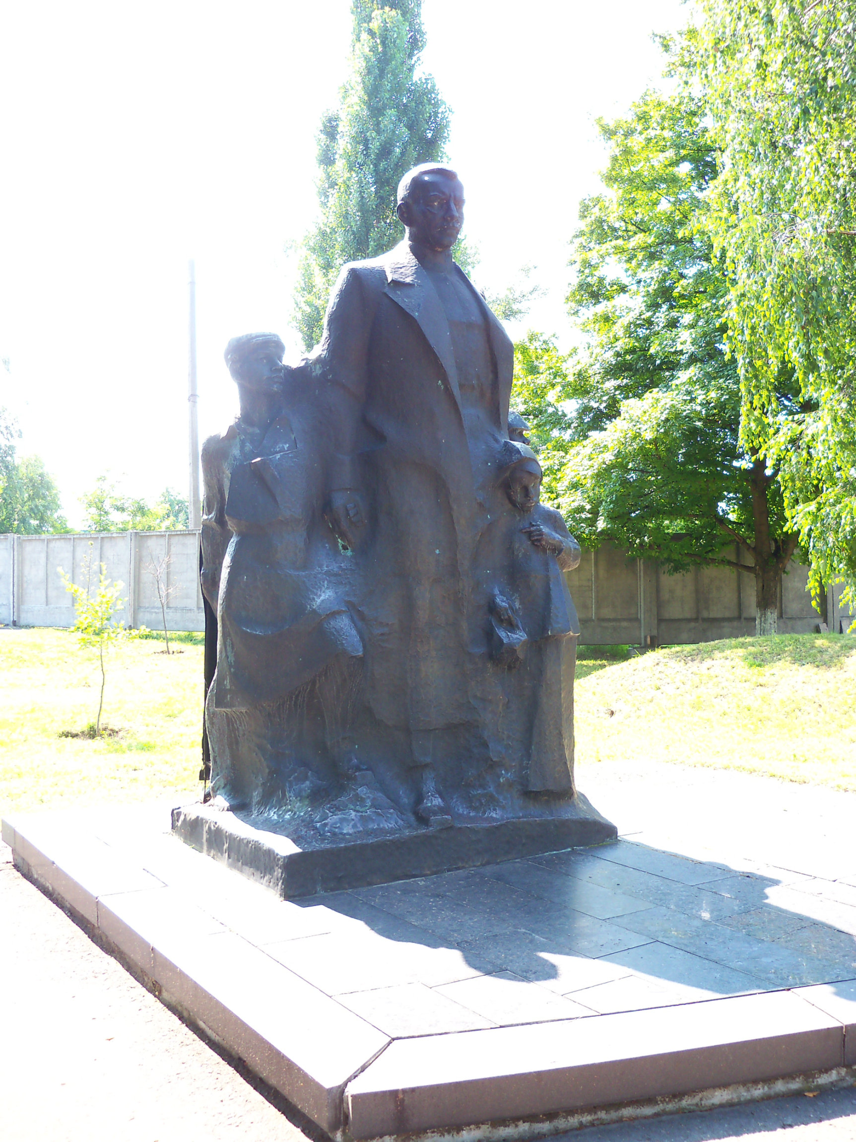 «Makarenko i dity» («Makarenko and children») in Kremenchuk